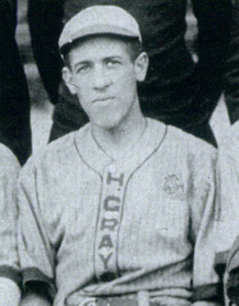 Photograph of Baseball Hall of Fame Manager/Owner Cumberland Posey, founder of the Homestead Grays